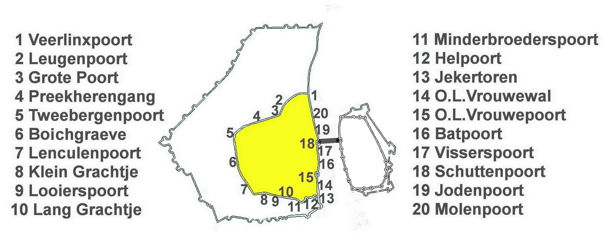 Stylized map of the medieval city of Maastricht, the Netherlands, showing the first medieval city wall (ca 1230). The bridge accross the river Meuse connects the two parts of the city. The names of gates, towers and bullwarks on the left bank are given.